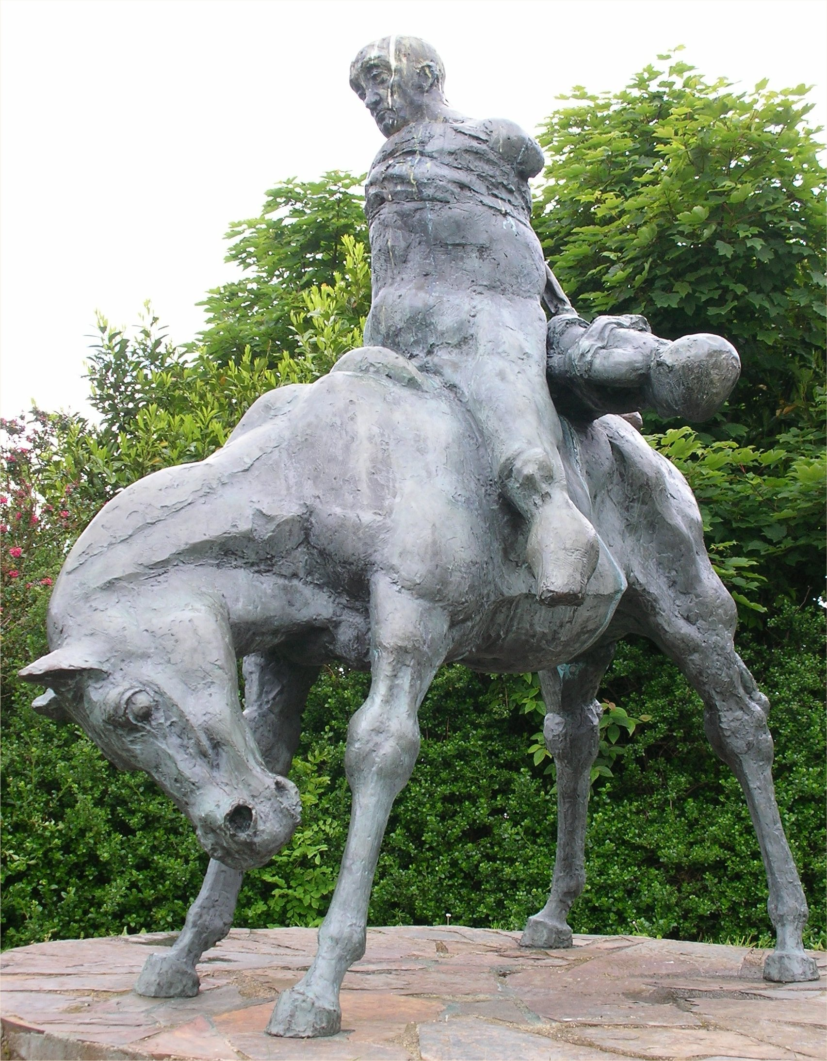 Sculpture by Ivor Roberts-Jones, 1984, next to Harlech Castle in north west Wales. A representation from the Mabinogion — Bendigeidfran carries the body of his nephew Gwern. Photographed by me, Oosoom, 28 May 2006.